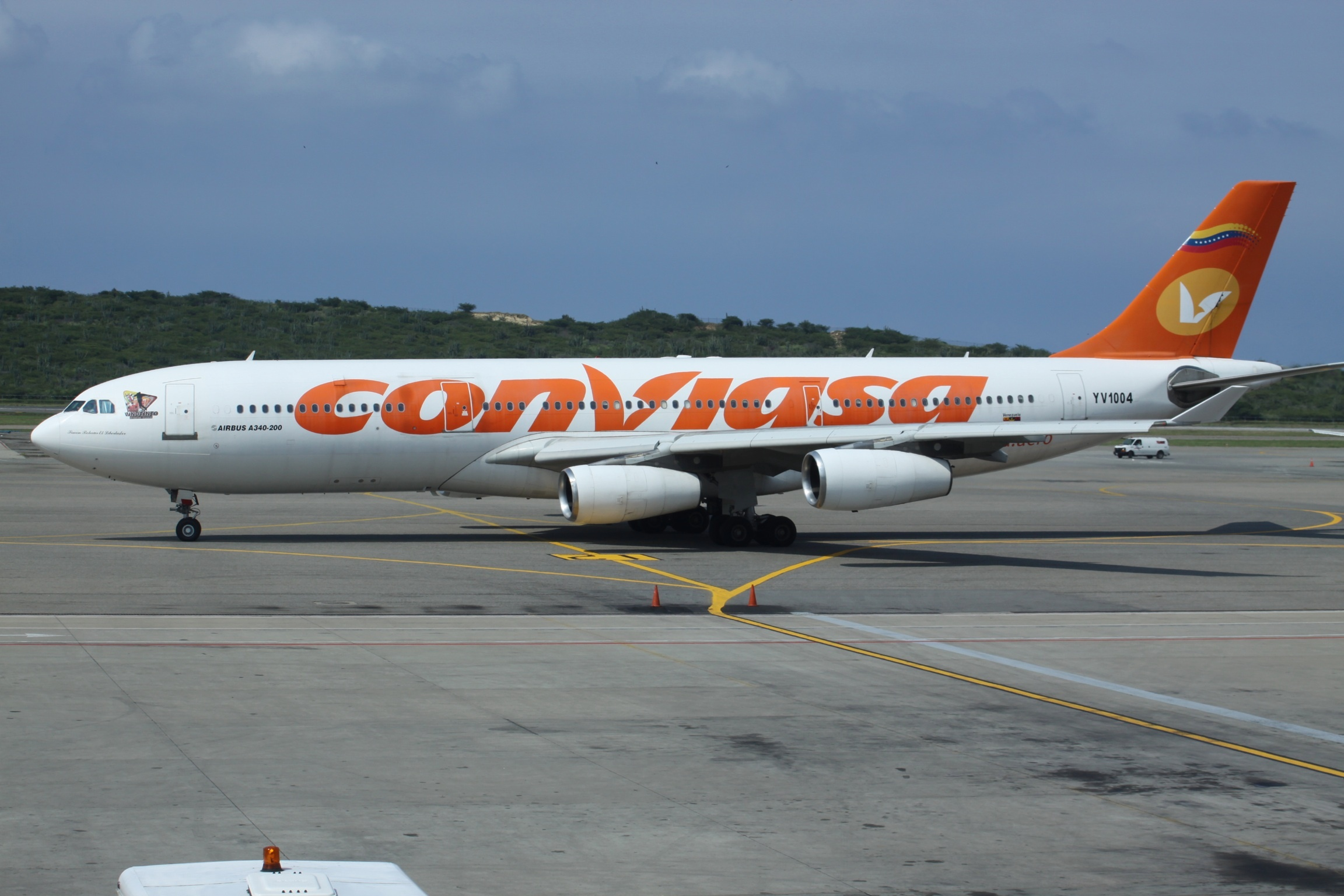 At Caracas Simón Bolívar International